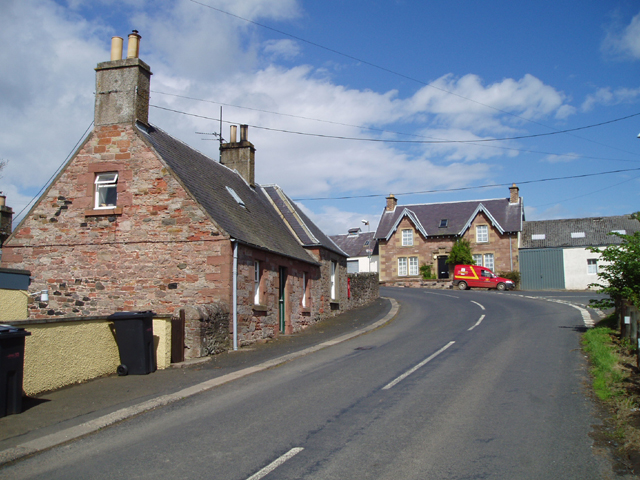 Clintmains. A small village lying very close to the River Tweed just to the East of Newtown St Boswells. The village also lies on the route of the Borders Abbeys Way which is a sixty four and a half mile circular walk taking in the four Border Abbeys Dryburgh, Jedburgh, Kelso and Melrose.